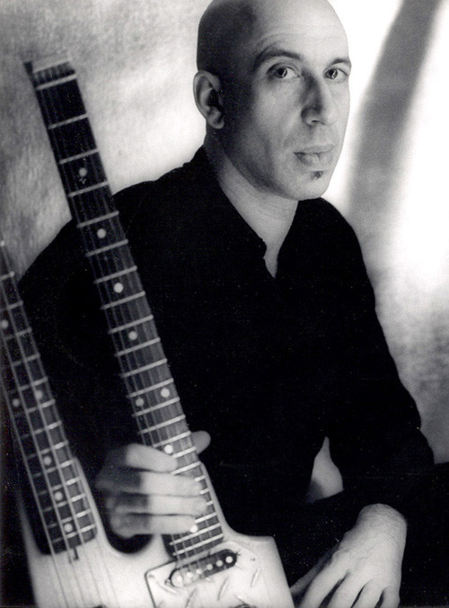 Elliott Sharp, guitarist